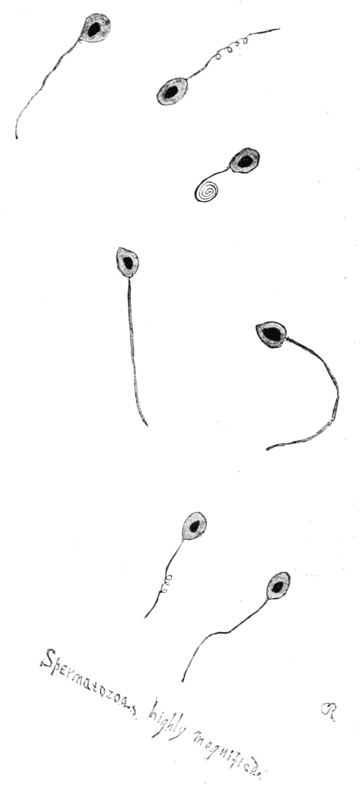 Salmon spermatozoa for artificial propagation